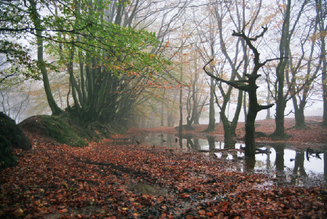 Track off the Quantock Drove Road near Wills Neck. This point is on the Quantock ridge line about a half mile SE of Wills Neck. Note the ancient wall on the left with trees growing out of it. The practice of planting trees in walls is not uncommon in the area